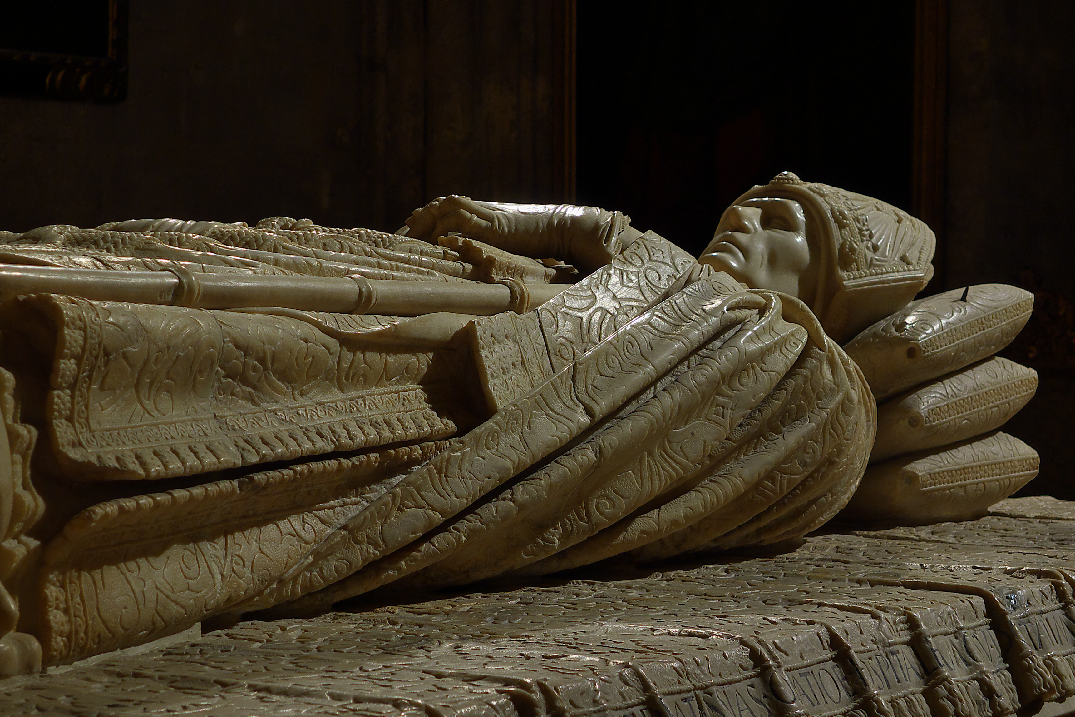 Saint Hermenegild´s Chapel